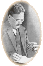 Depicted person: Muhammad Iqbal – Urdu poet and leader of the Pakistan Movement